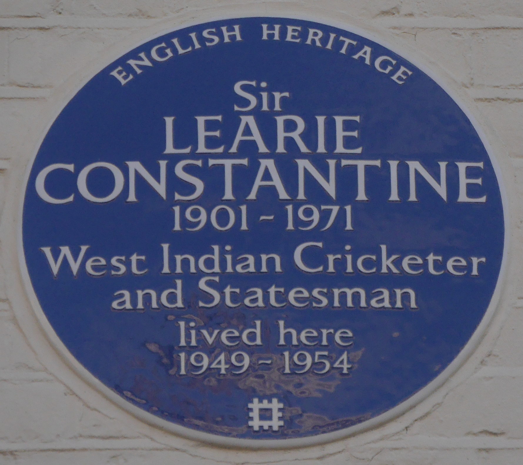 Learie Constantine 101 Lexham Gardens blue plaque